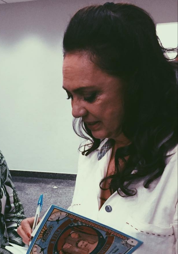 Actriz